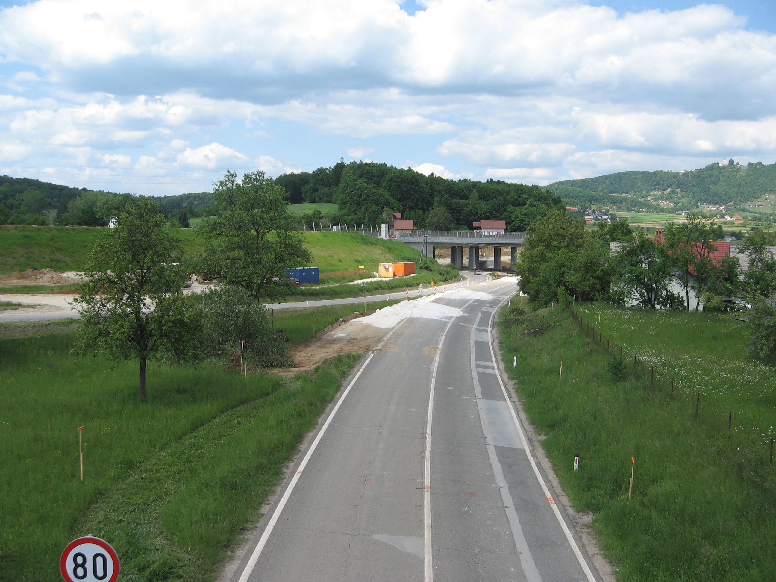 Brotherhood and Unity Highway near Dolenje Kronovo (2008)